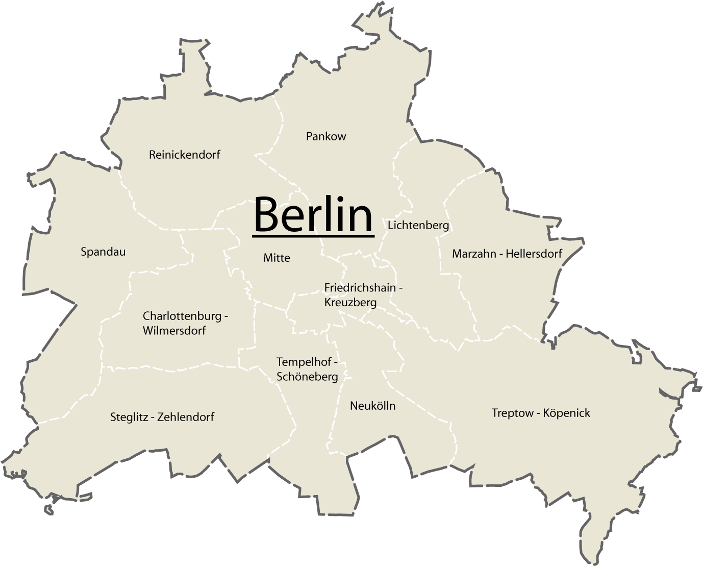 Author: Felix Hahn Source: Based on Water map of Berlin Description: Map of Berlin and its districts.